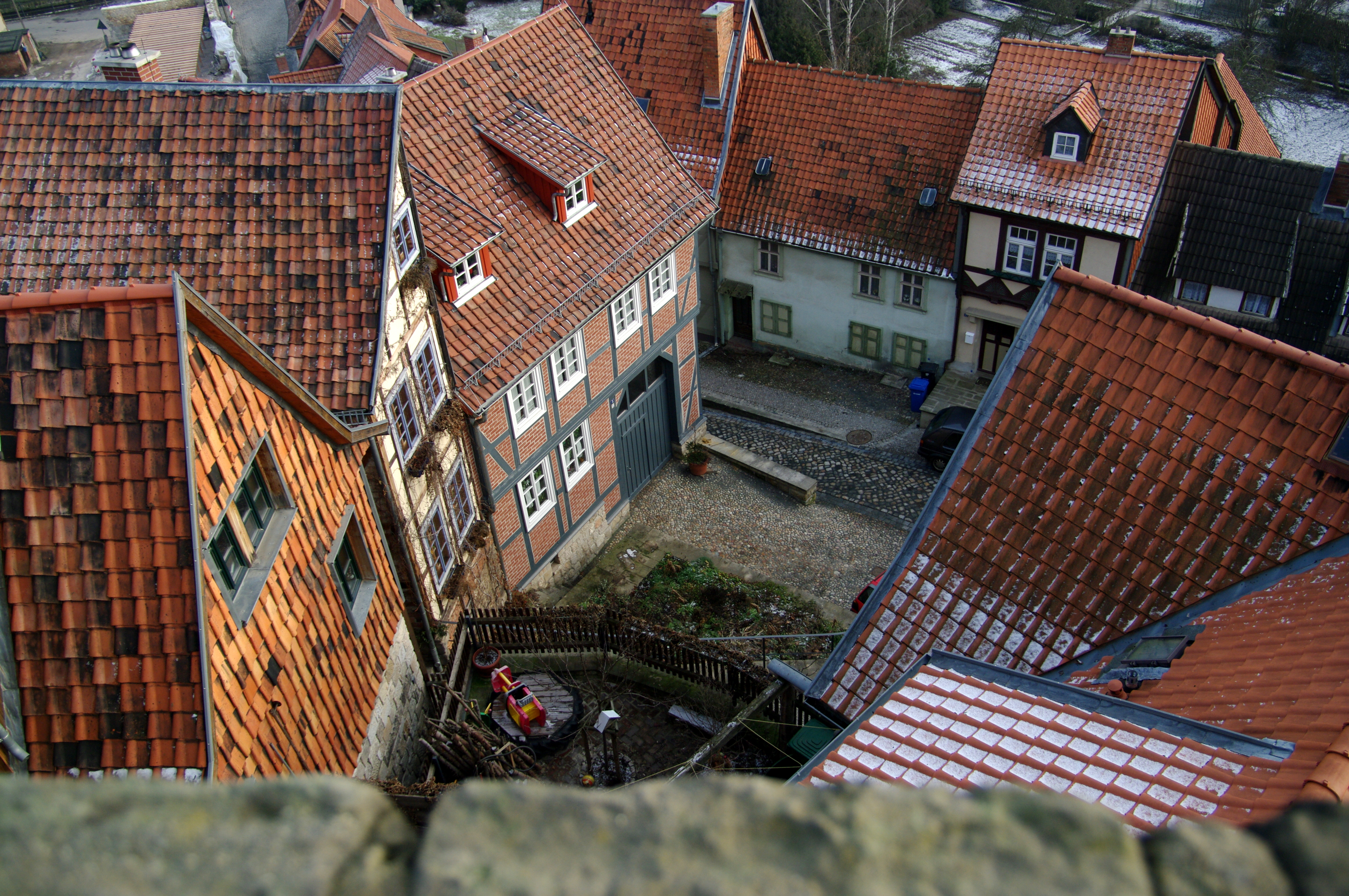 View from the castle mountain in Quedlinburg in Winter